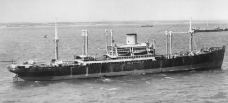 The Dutch merchant ship Straat Malakka in 1940. The German auxiliary cruiser Kormoran attempted to impersonate this vessel when she was intercepted by HMAS Sydney on 19 November 1941